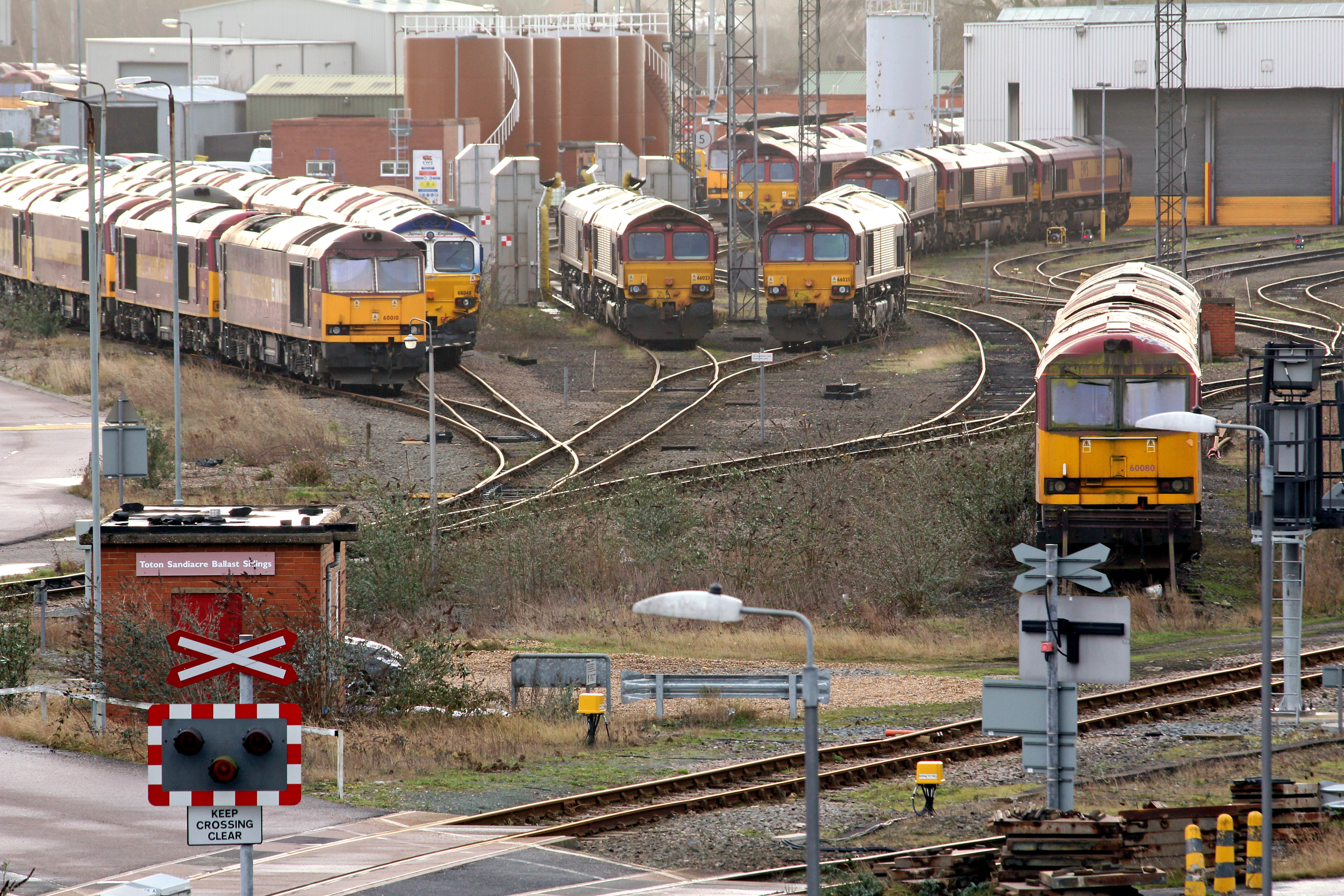 Make out no.60010, no.66048 James the Engine, no.66023, no.66025 & no.60080